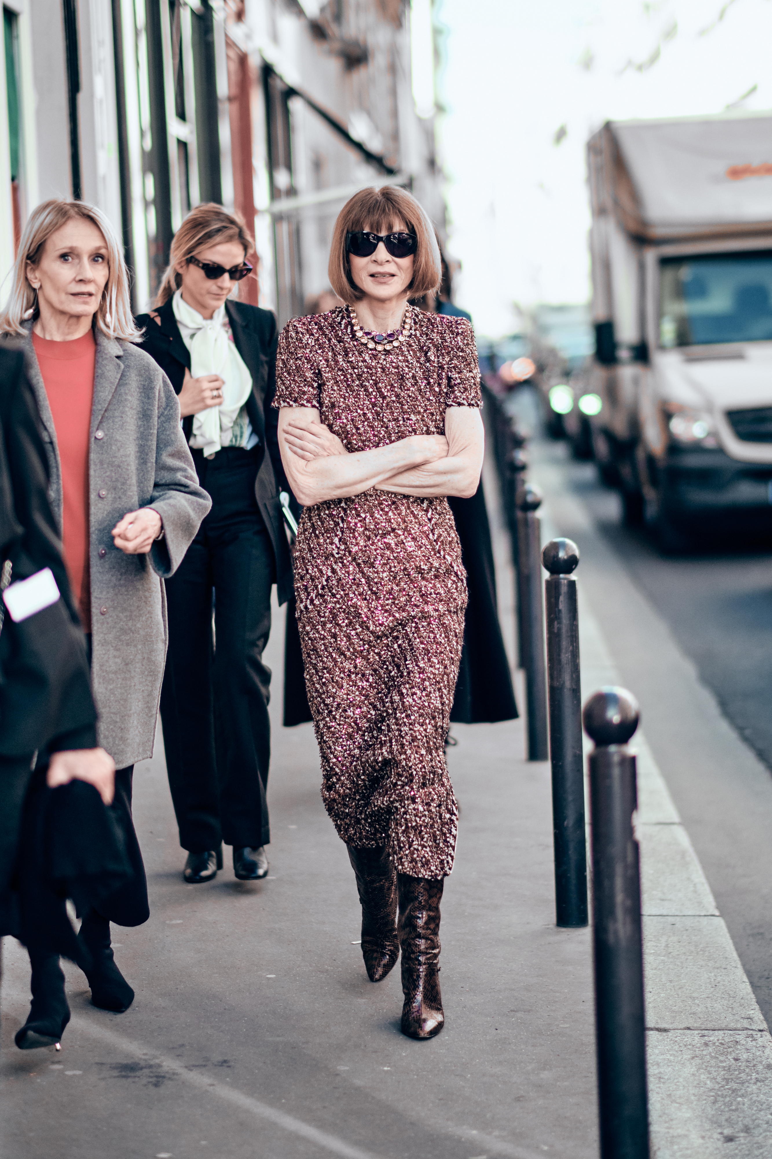 Anna Wintour at Paris Fashion Week Autumn/Winter 2019